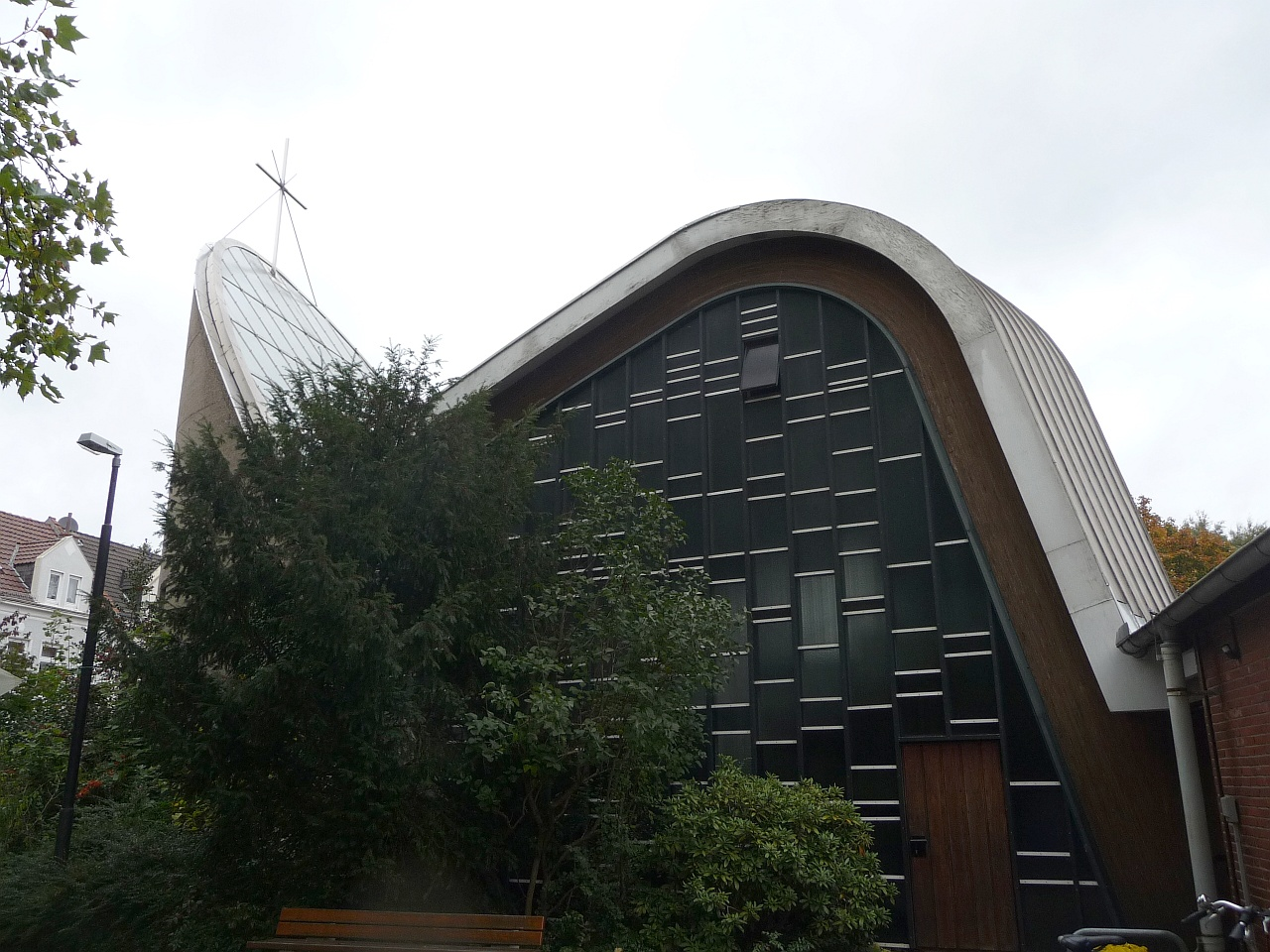 Auferstehungskirche in Bremen-Hastedt